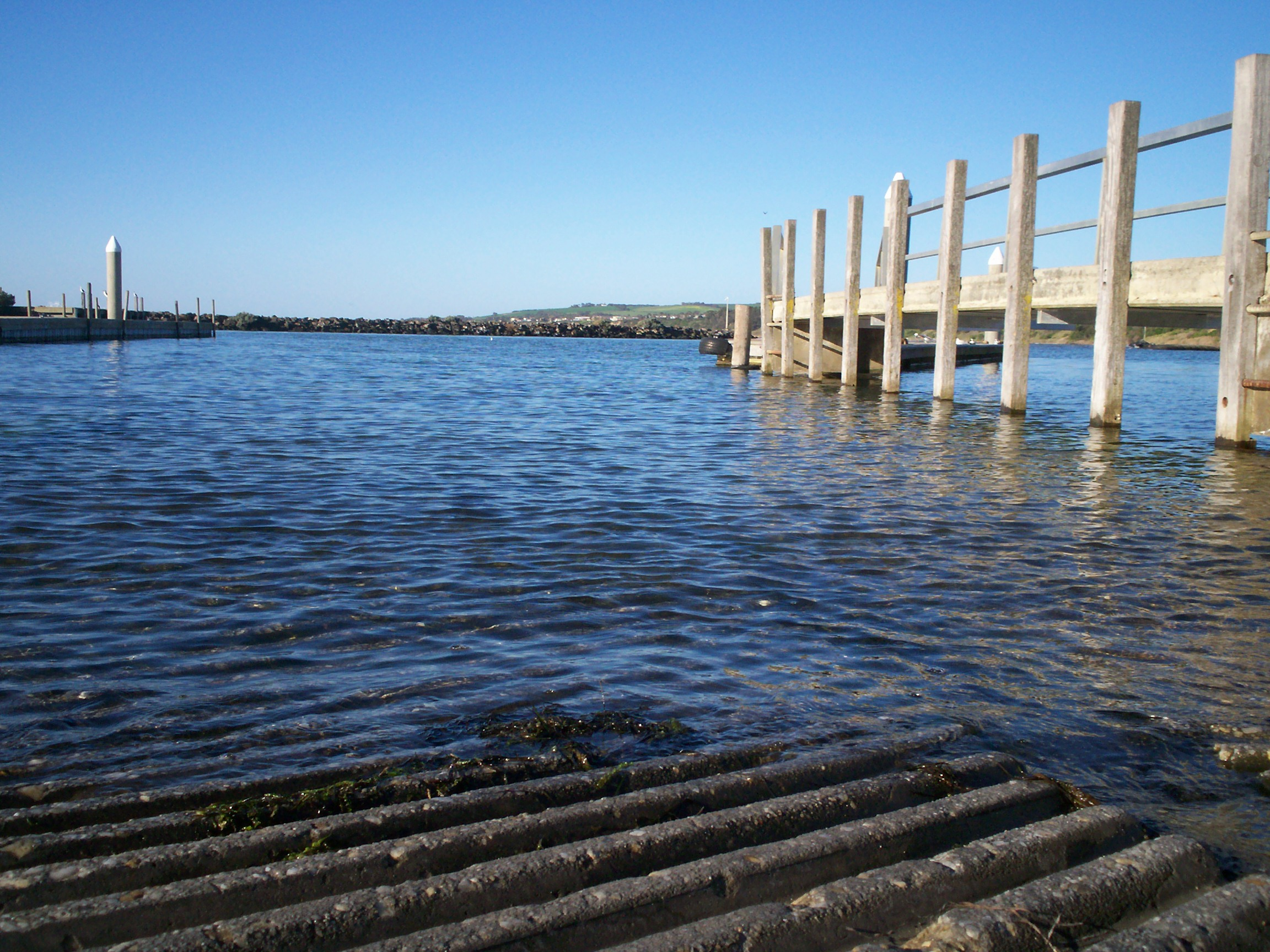 Taken by User:Michaelbeckham - 30/8/07